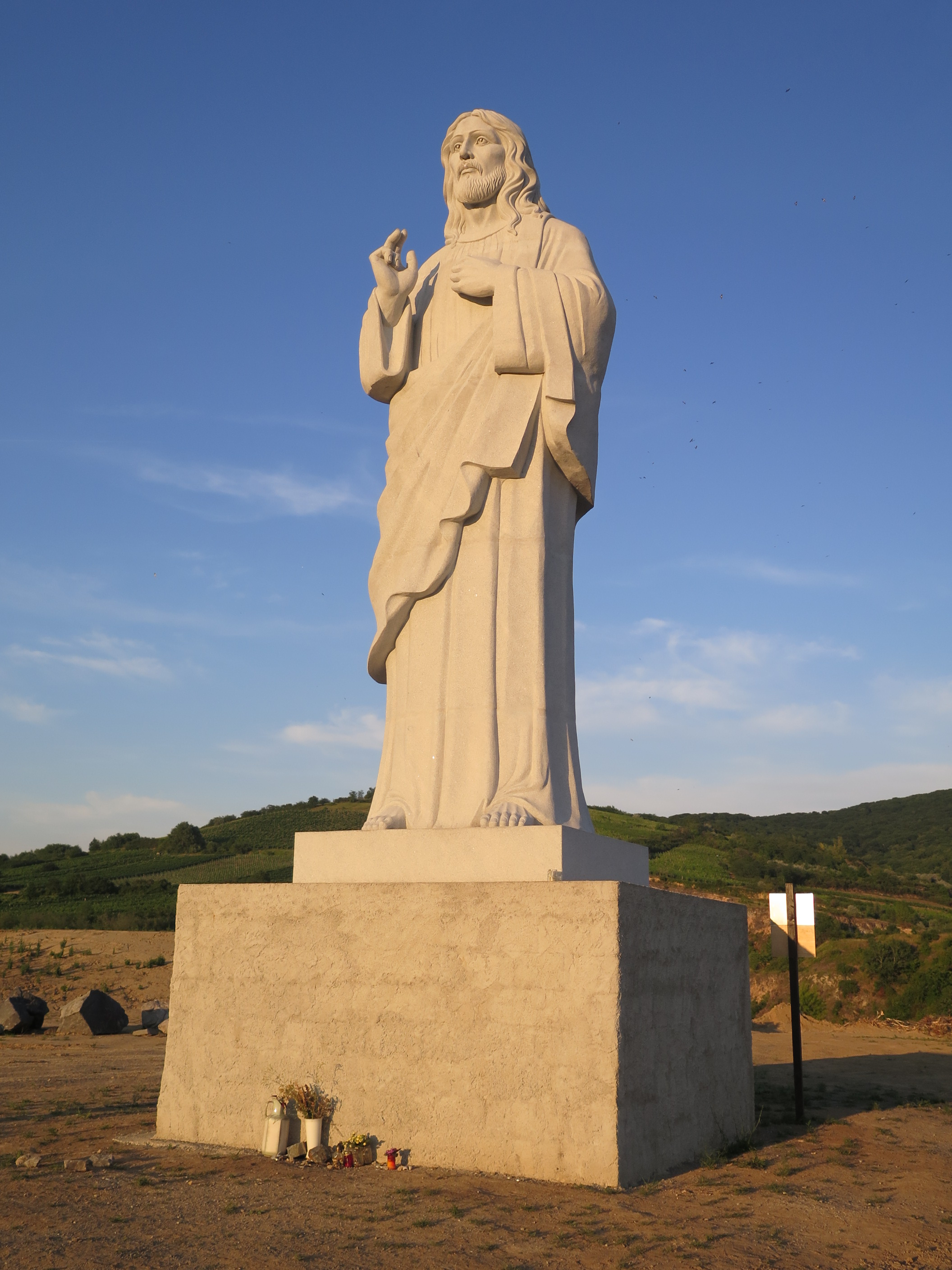 Jezus monument in Tarcal, Hungary. Sculpturer Sándor Szabó.